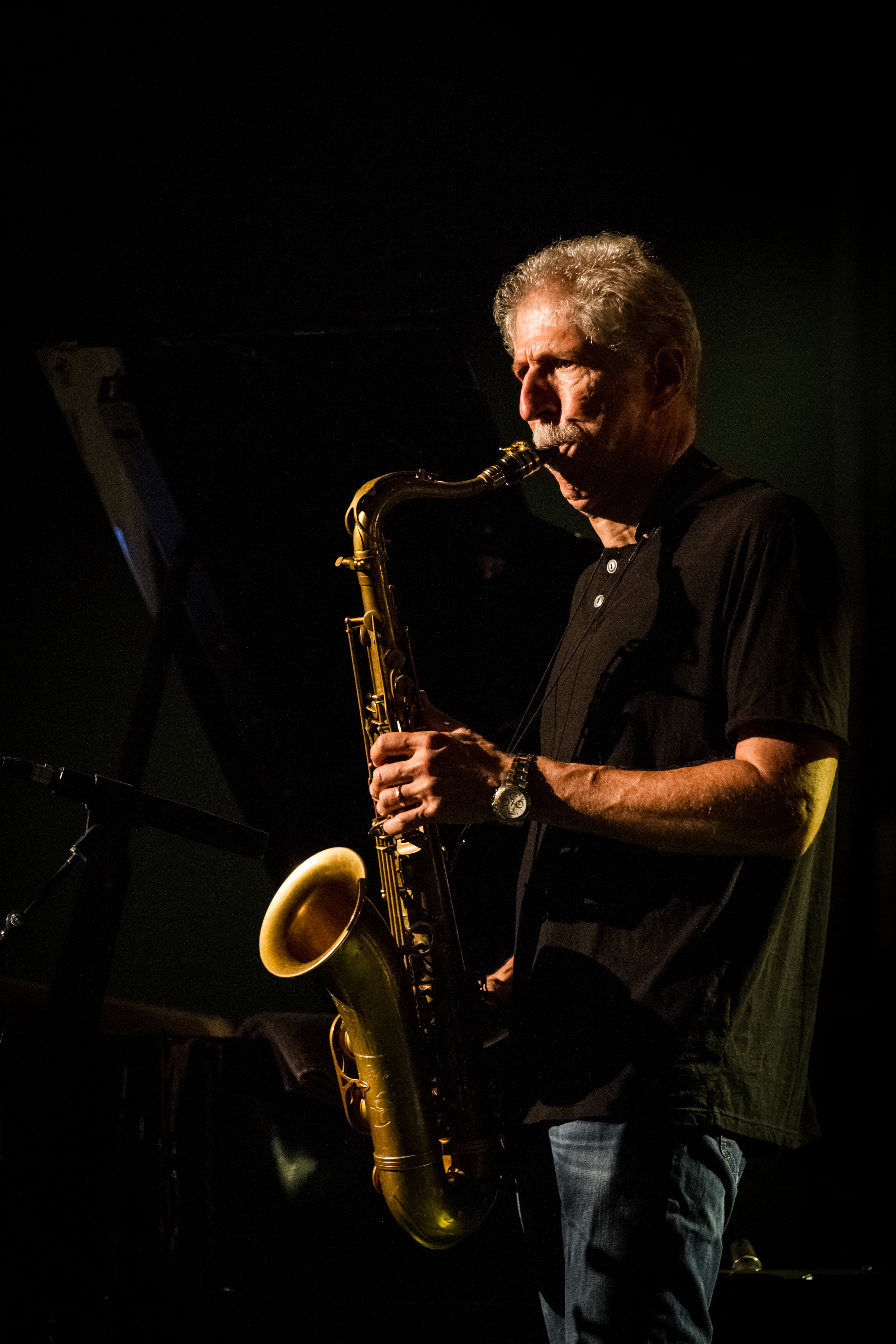 Bob Mintzer with Yellowjackets - Leverkusener Jazztage 2015